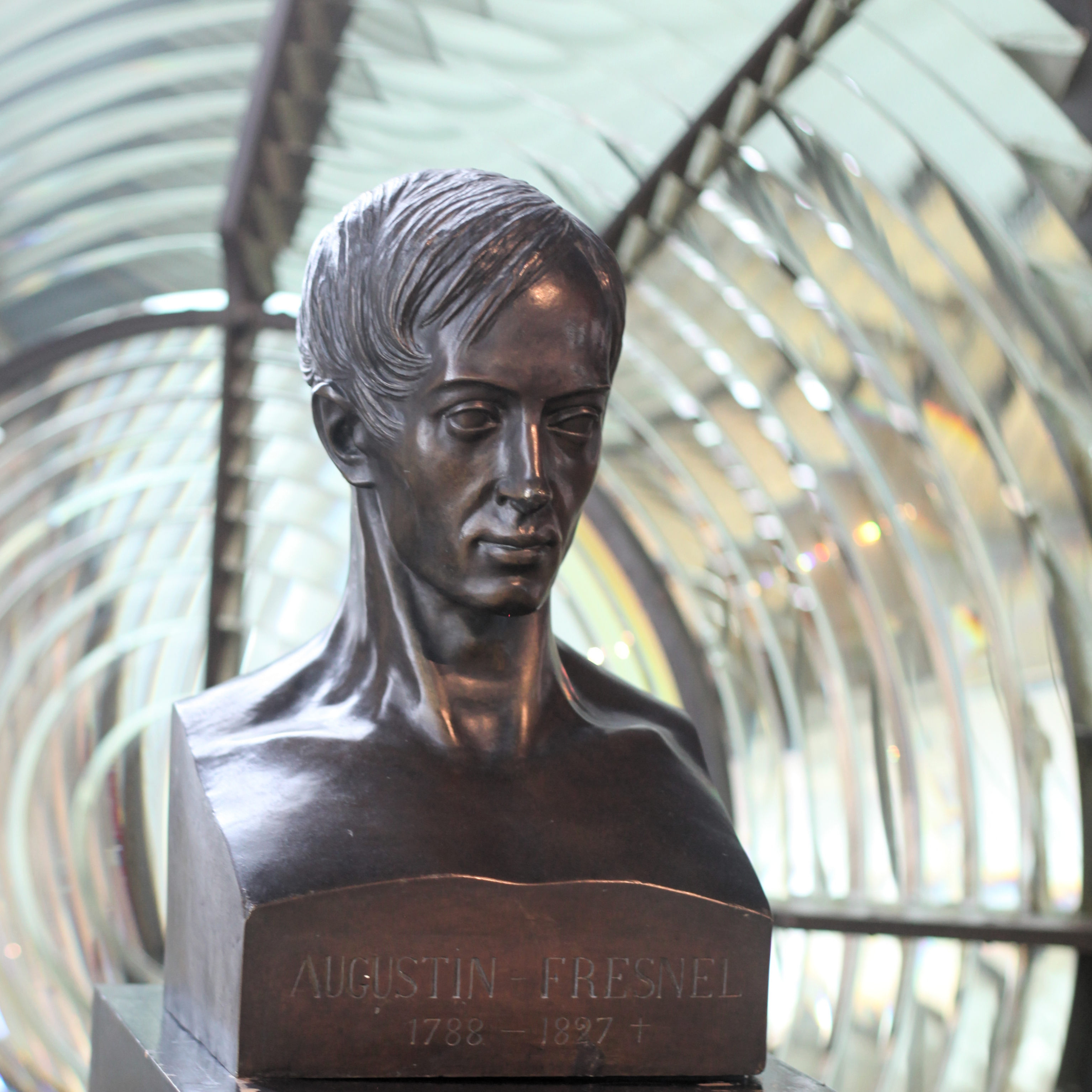 The bust was placed in front of the optical system of the lighthouse of Hourtin, Gironde, which was in service into the 50s.